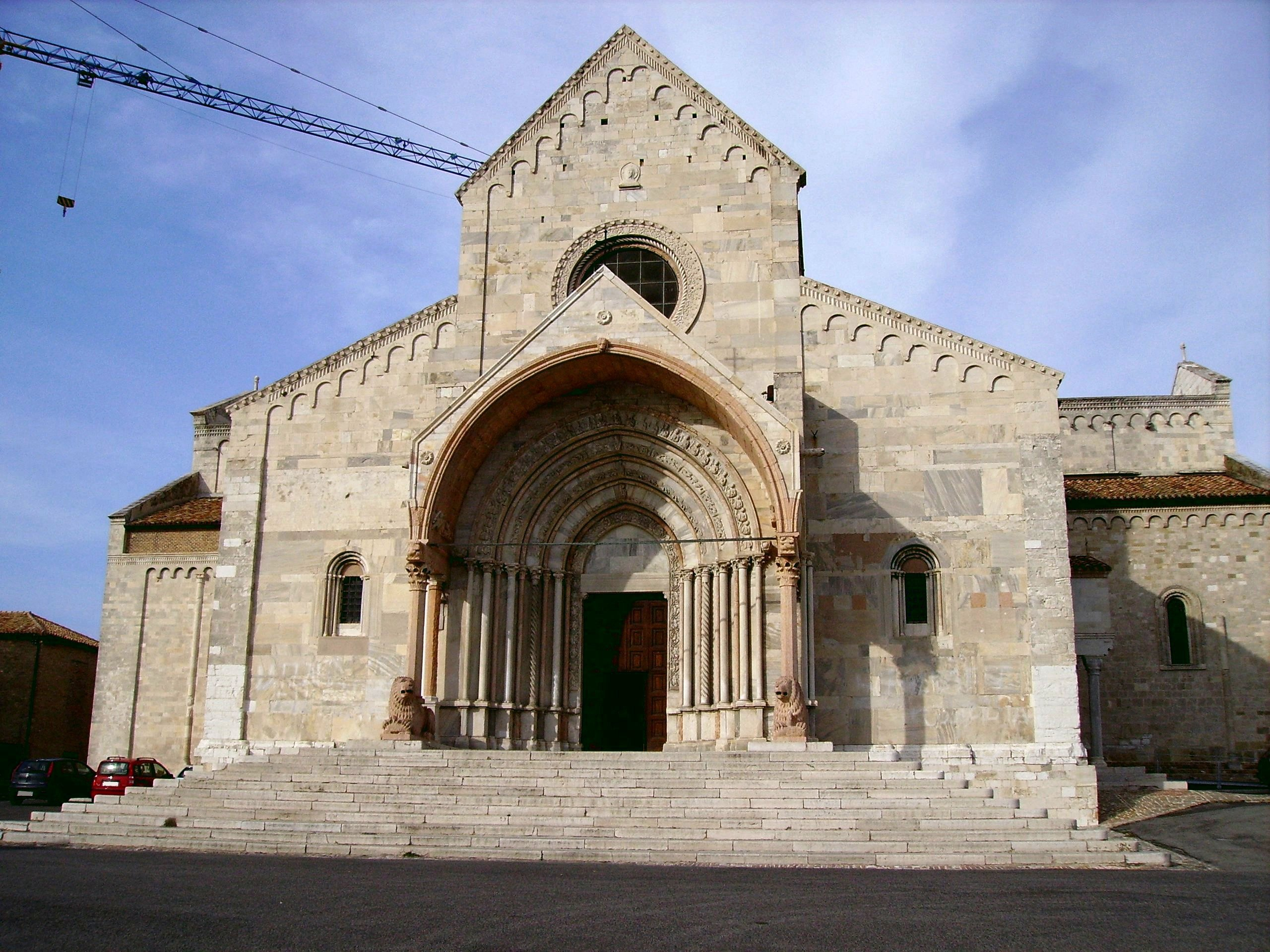 The Romanesque facade and Gothic archivolted portal at San Ciriaco cathedral, in Ancona - Marche - Italy